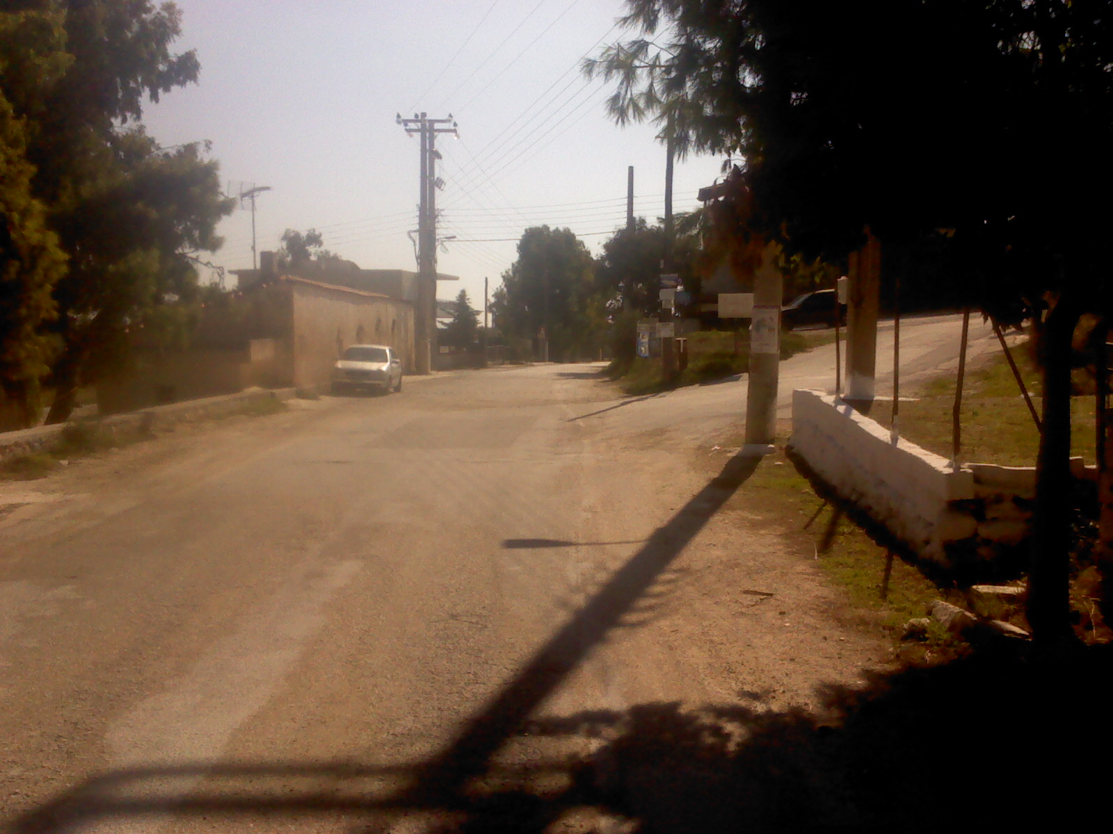 Street Agiou Dimitriou Koropi